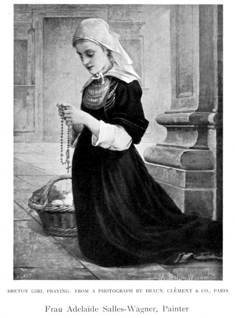 1905 print after page of Women painters of the world, from the time of Caterina Vigri, 1413-1463, to Rosa Bonheur and the present day, by Walter Shaw Sparrow, The Art and Life Library, Hodder & Stoughton, 27 Paternoster Row, London